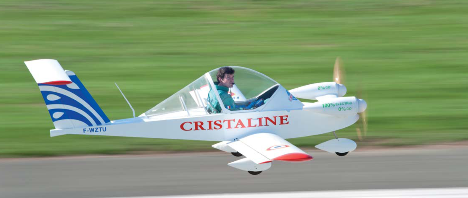 MC15E Cri-Cri twin electric engine aircraft. World Speed Record for electric aircraft : 175,46 mph during 2011 Paris Air Show. Design : Michel Colomban. Engines and batteries : Electravia. Owner : Hugues Duval, France